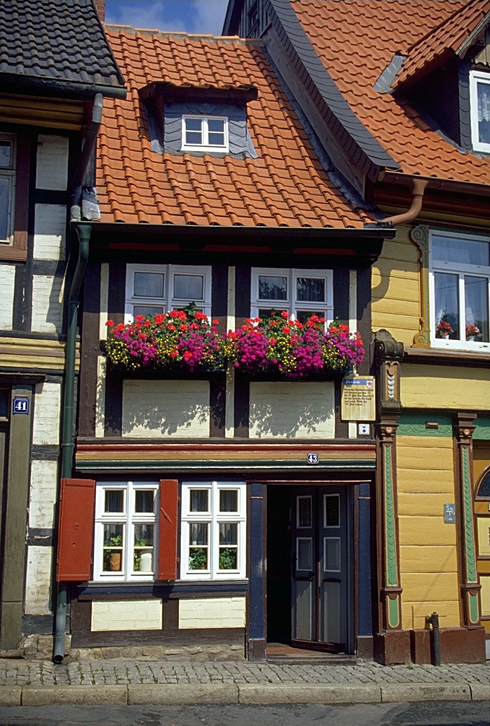 Smallest House of Wernigerode, Germany Photo was taken using the following technique: Film: Fuji Velvia Lens: Minolta 4/35-70 Filter: none Body: Minolta Dynax 7 Support: none Image with Information in English Bild mit Informationen auf Deutsch